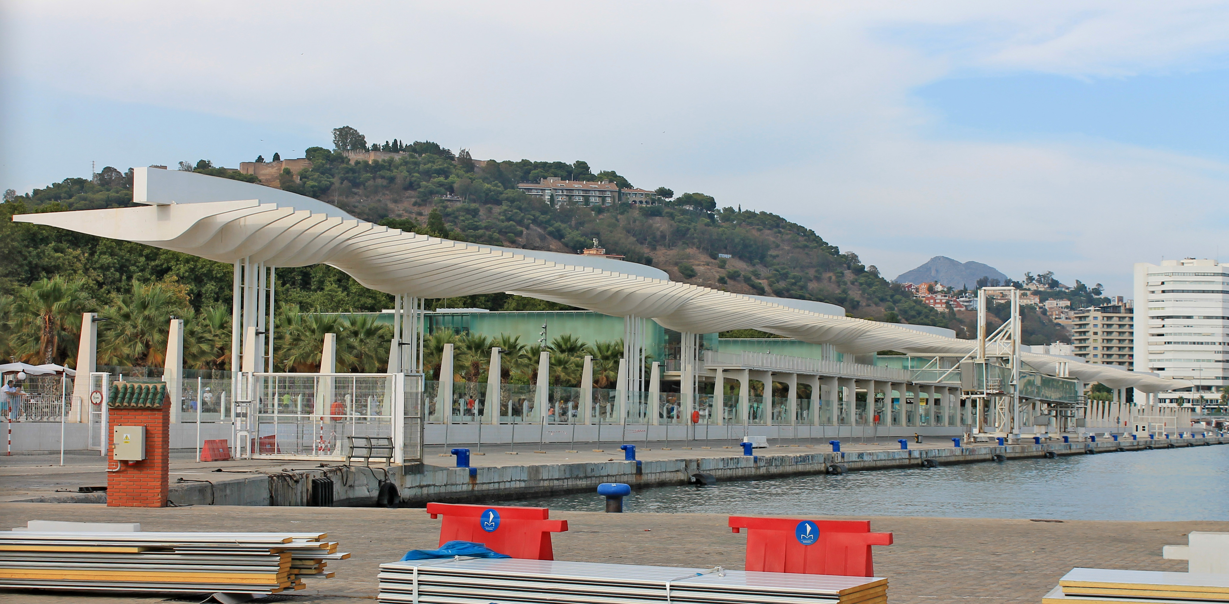 View of Palmeral de las Sorpresas (Quay 2) in Málaga (Spain).